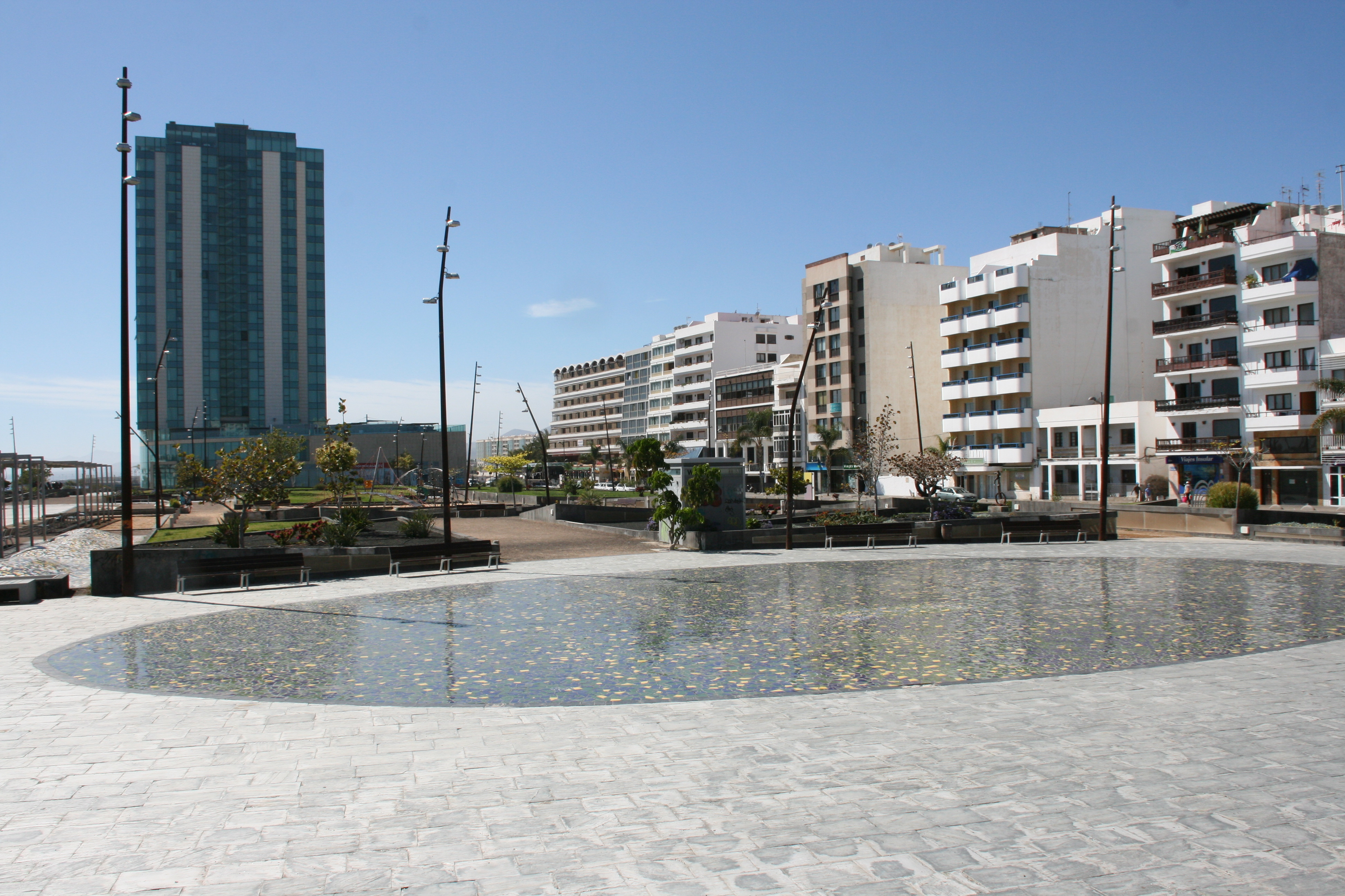 Parque Islas Canarias, Avenida Doctor Rafael Gonzáles in Arrecife, Lanzarote, Canary Islands